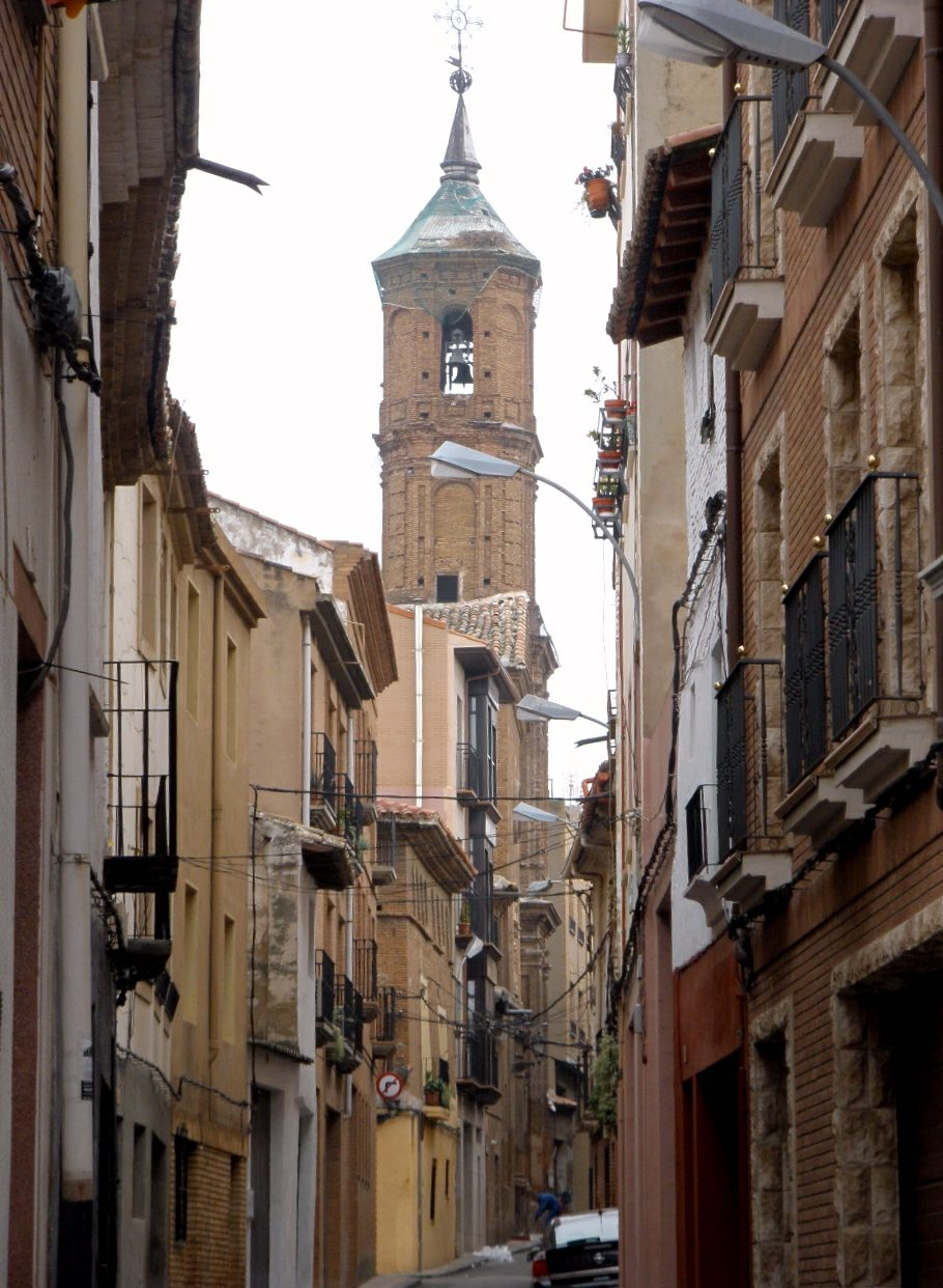 Vista urbana de Alfaro (La Rioja, España)